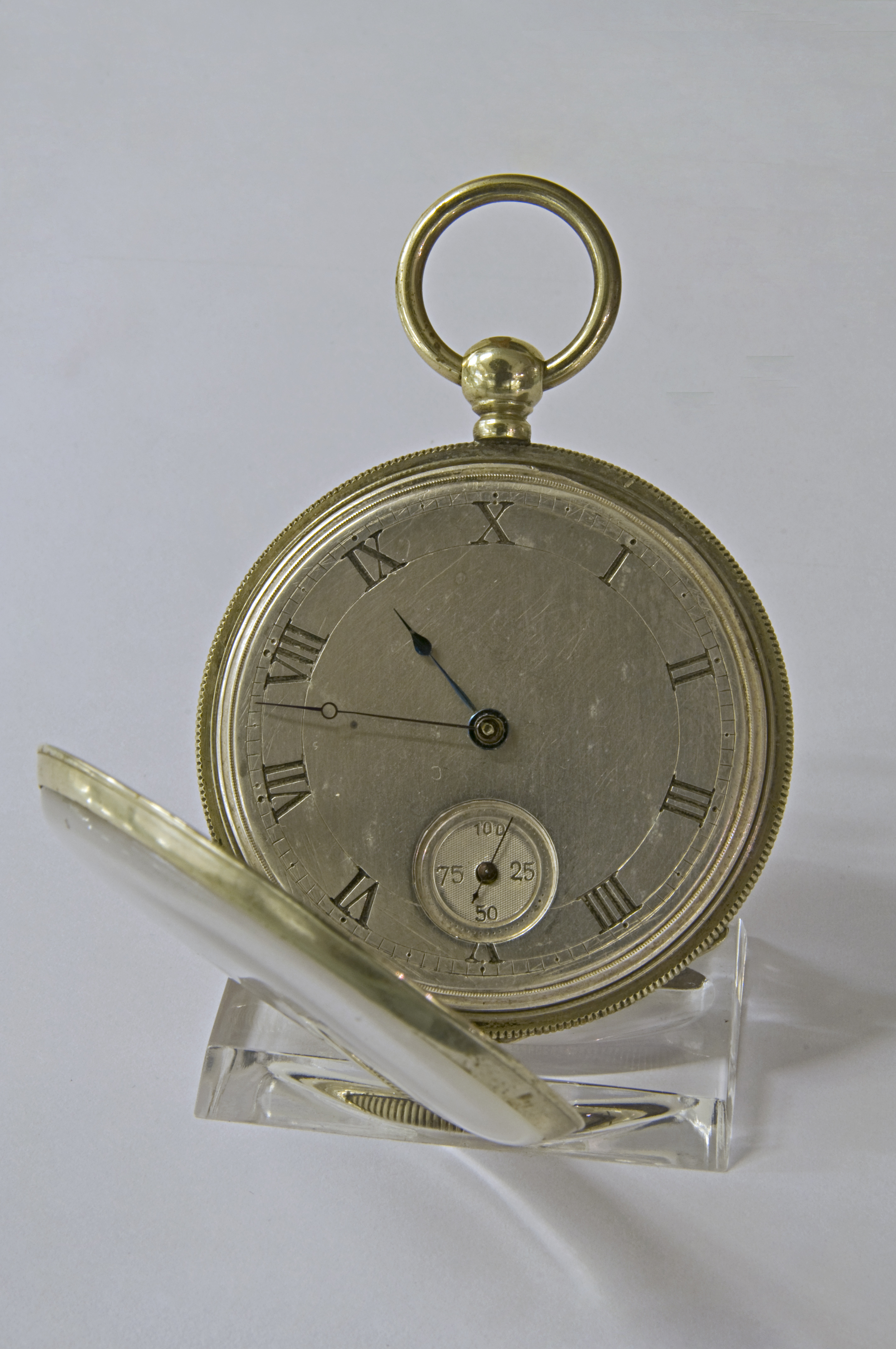 French decimal pocket watch from the era of the French Revolutionary Wars